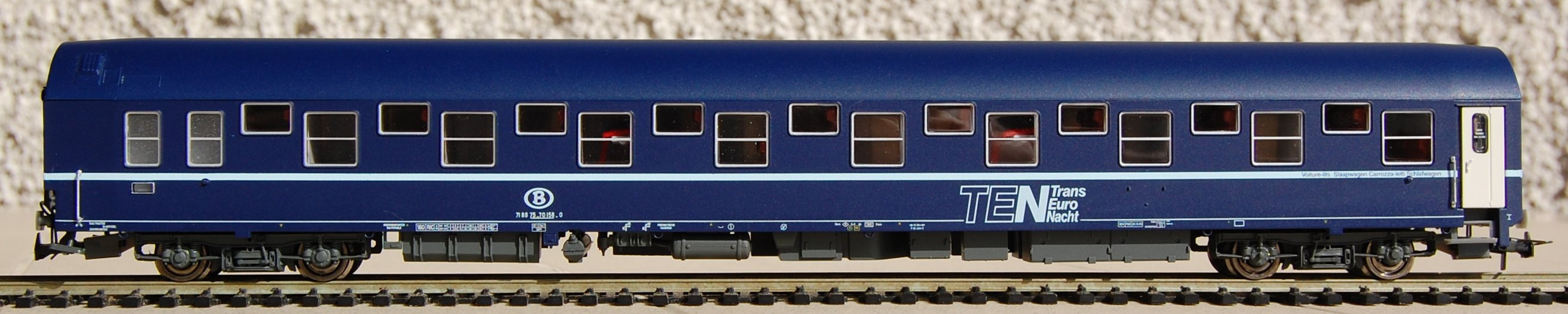 Type T2 sleeping car, Belgium. HO scale model by Rivarossi.